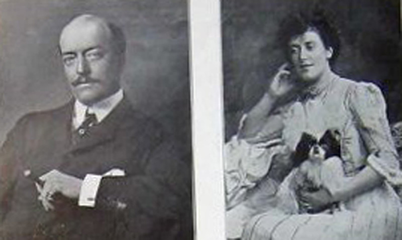 Ronald Greville and Margaret Helen Greville who owned Polesden Lacey